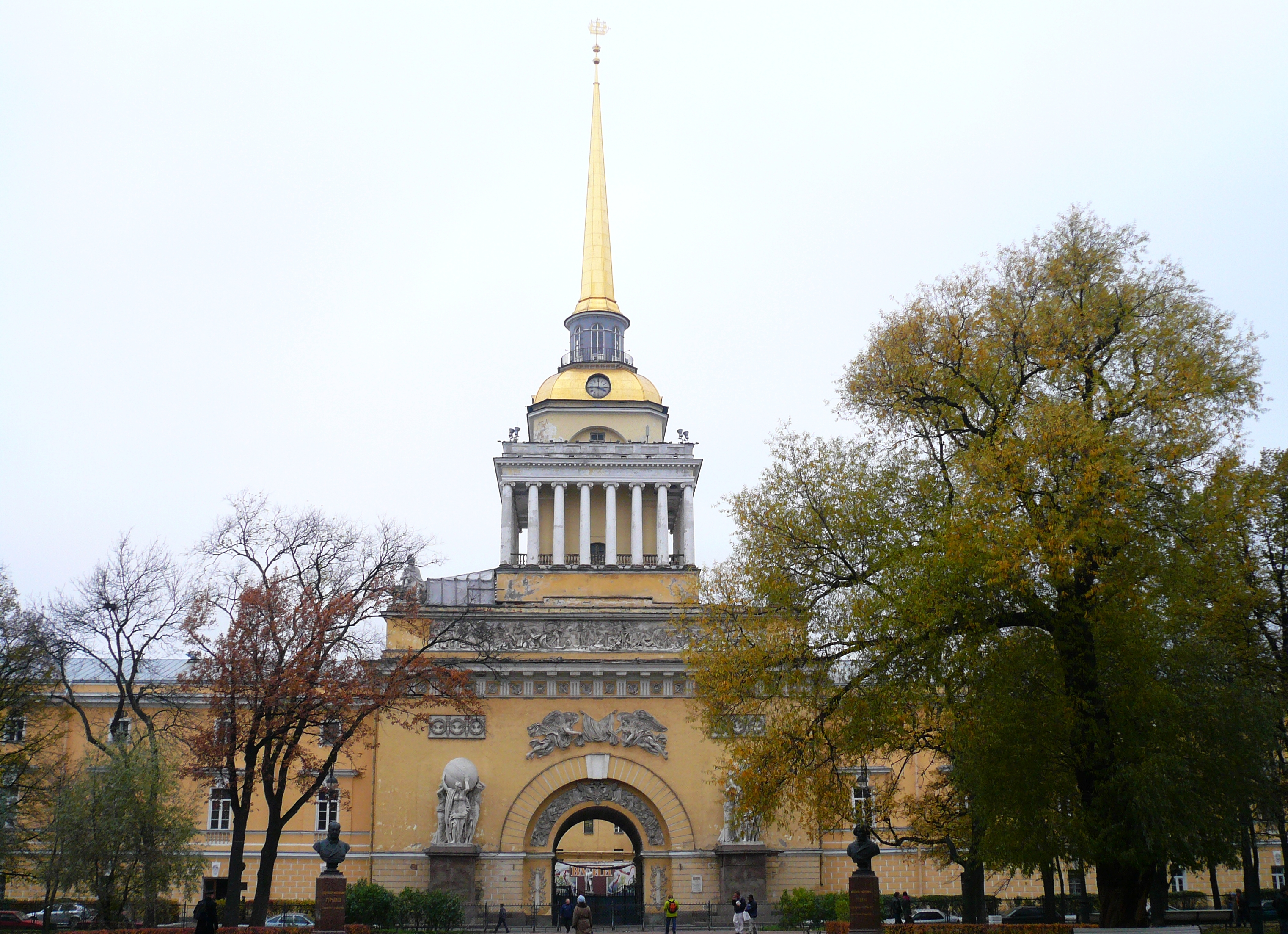 Admiralty Building, Saint Petersburg, Russia